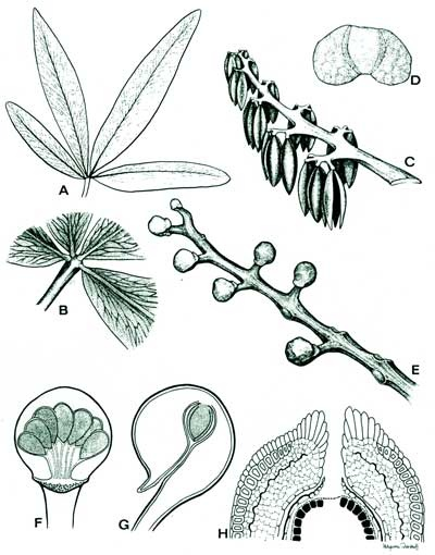 A) leaf structure B)Venation C)Seed structure D) Pollen grain E)Pollen sacs F)Cupule G)Pollen sac structure H)Ovule Reconstructed by Peter R. Crane (1985)